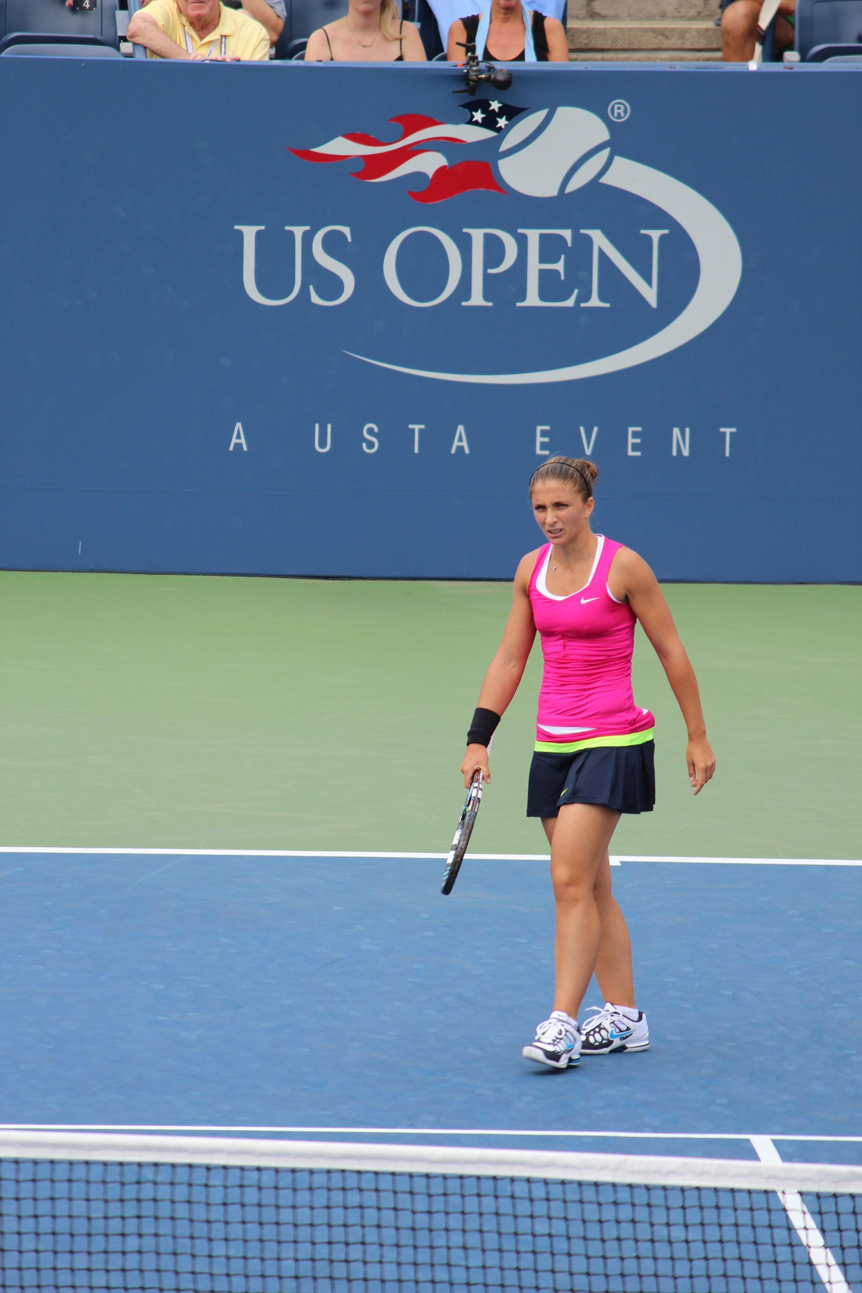 The Italian tennis player Sara Errani